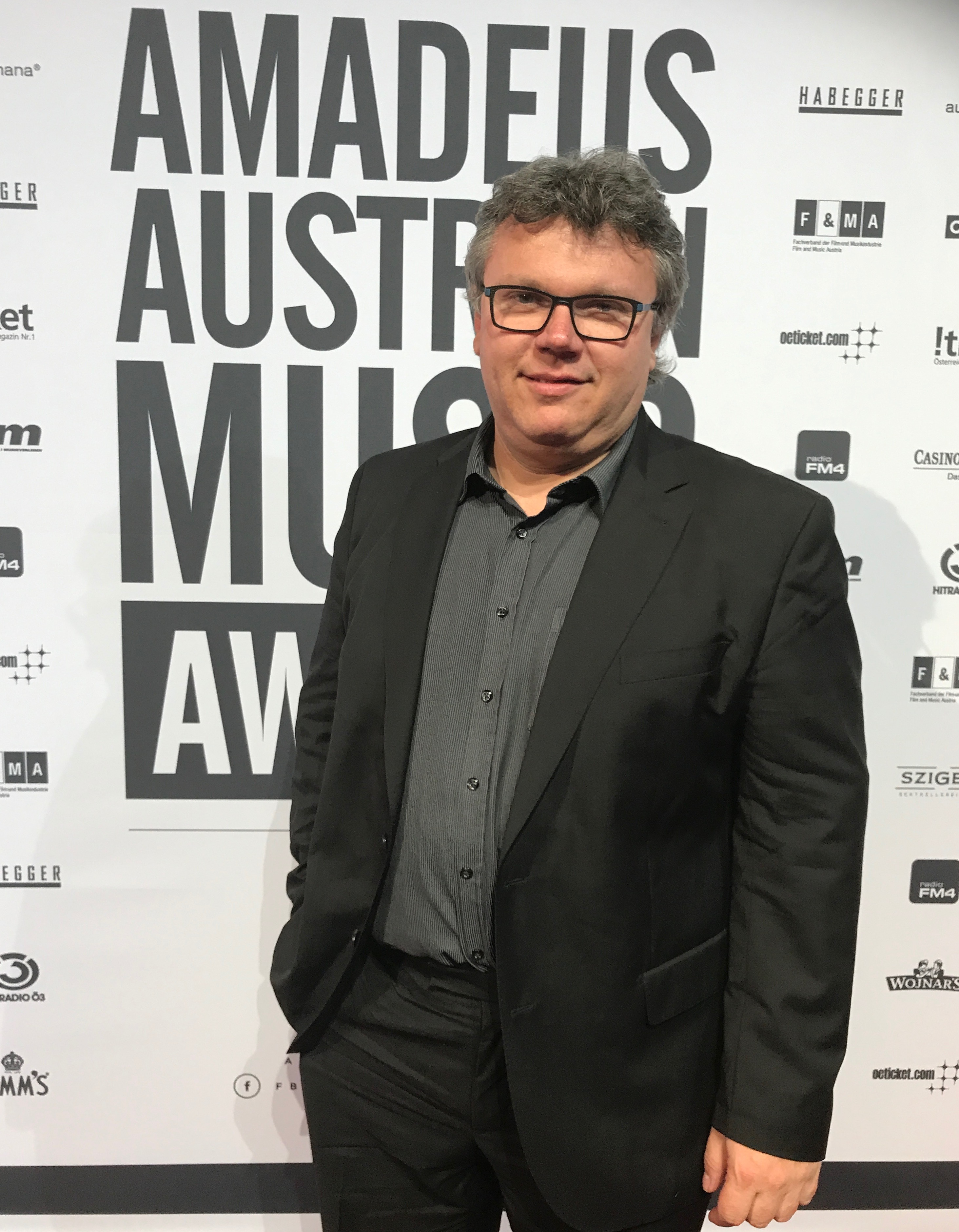 Christian Zierhofer 2017